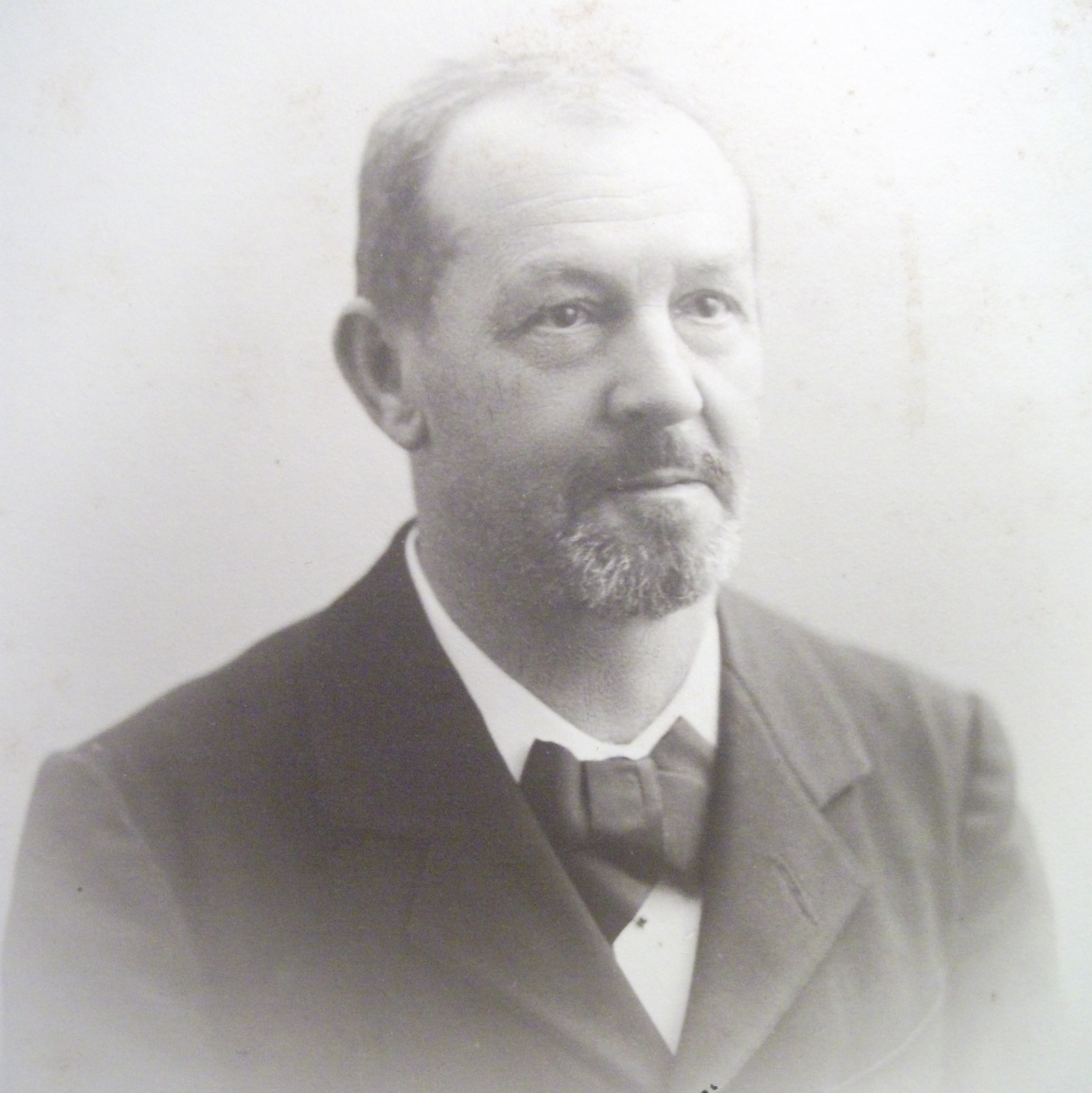 Paul Speiser (1846–1935), a lawyer and politician from Basel, Switzerland